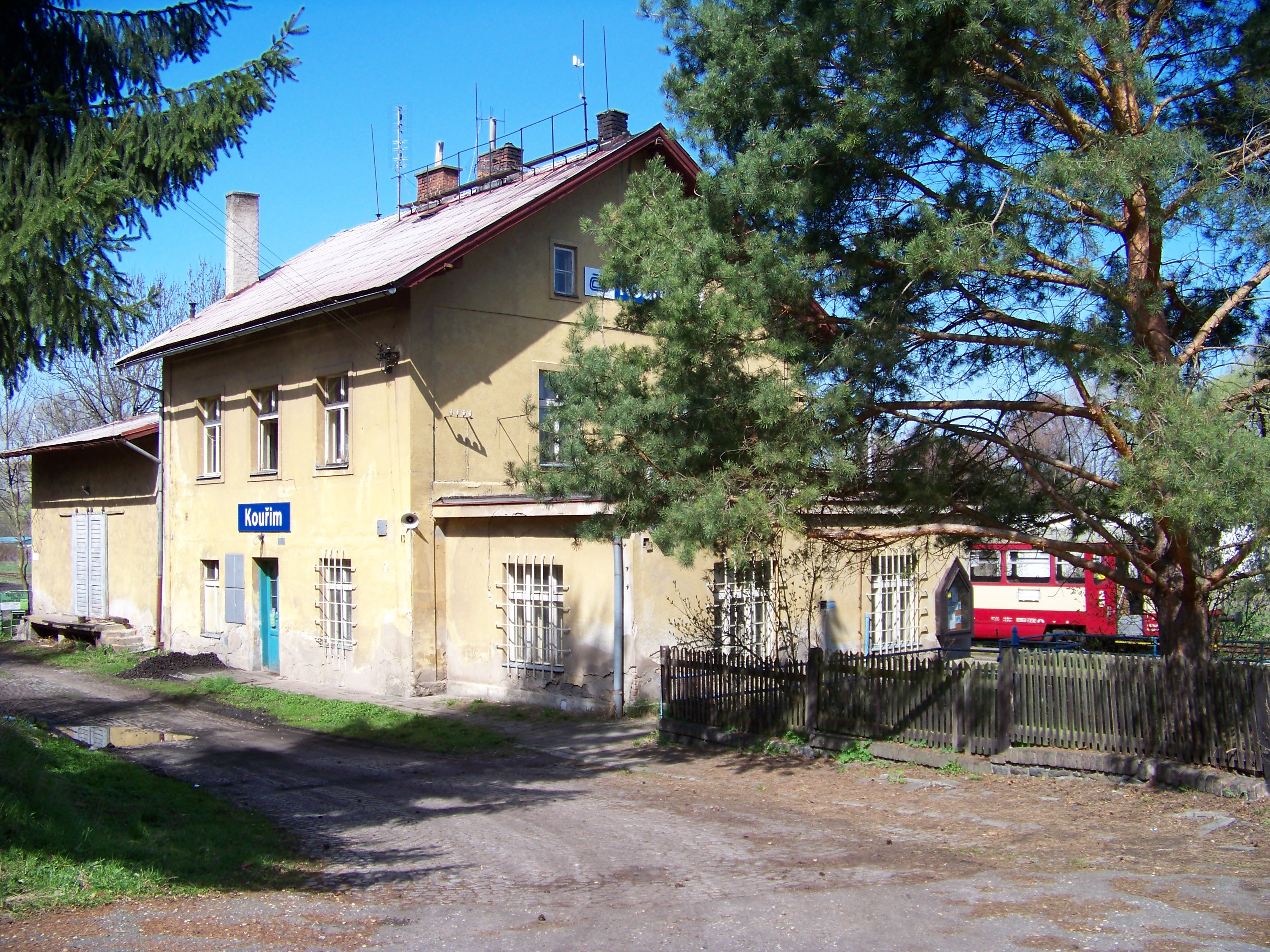 Kouřim, Kolín District, Central Bohemian Region, the Czech Republic. The train station. - Google Maps - Google Earth